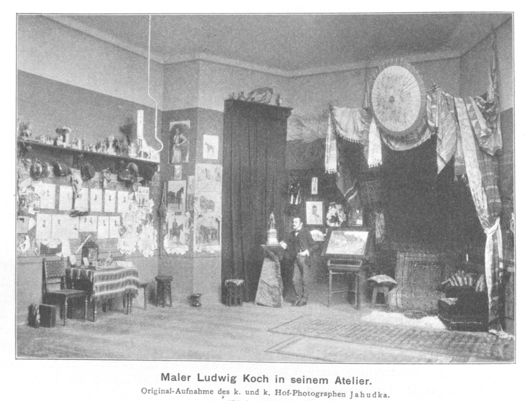 Austrian painter Ludwig Koch (1866-1934) in his studio